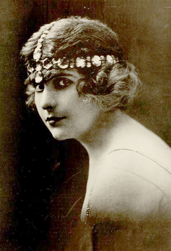 Pear White, The Photo-Play Journal, December 1916